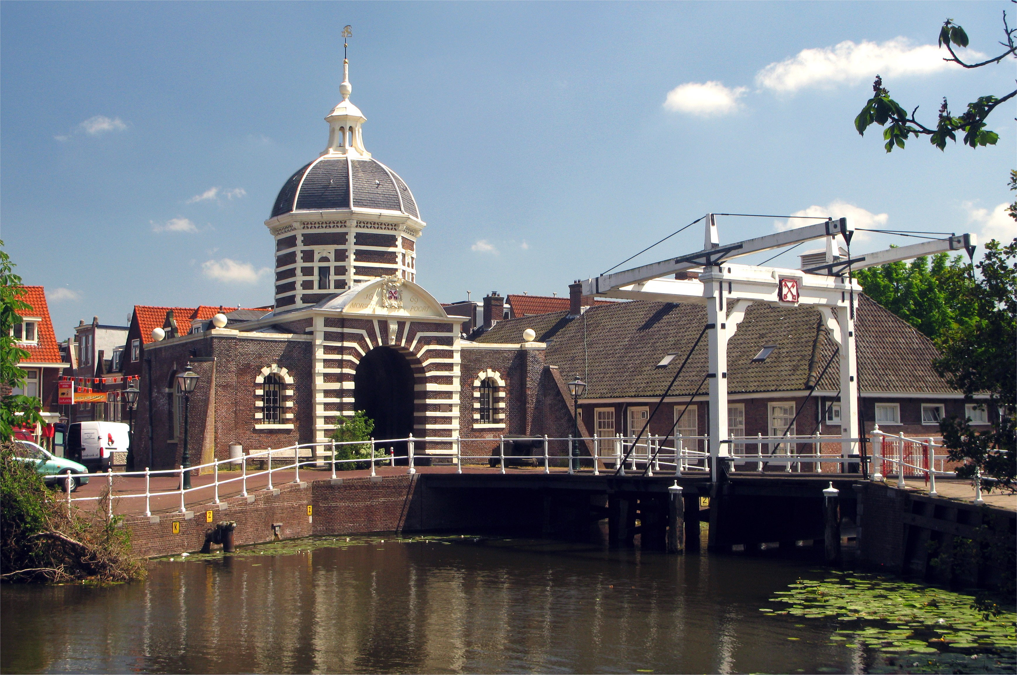 Morspoort, Leiden, Netherlands